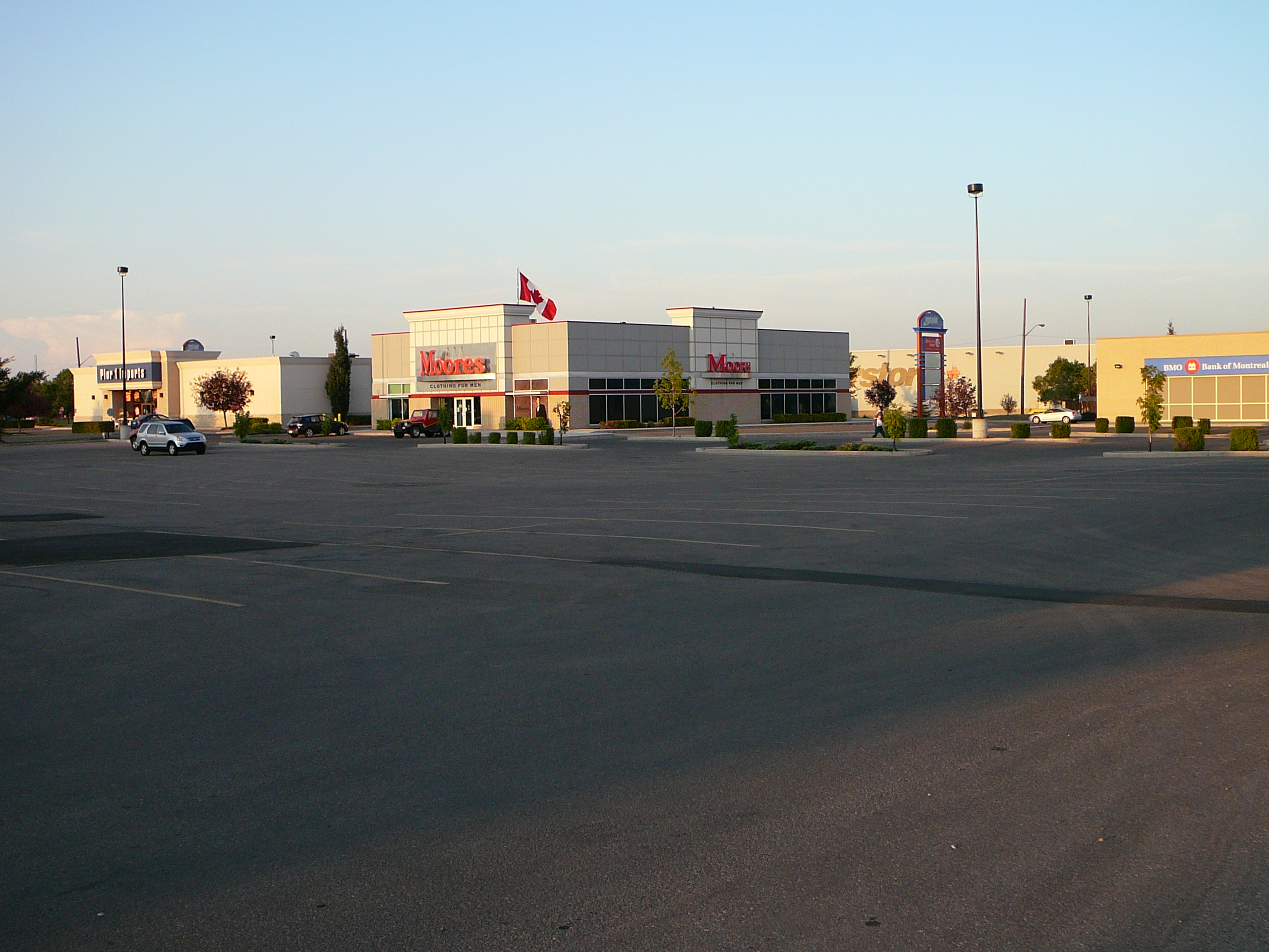 Commercial buildings in the Edmonton, Canada, neighbourhood of Place La Rue.